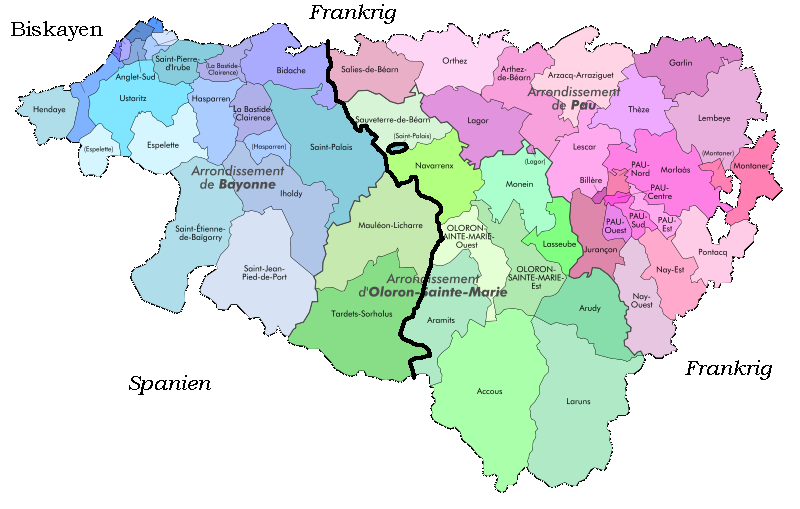 Gascony and Béarn